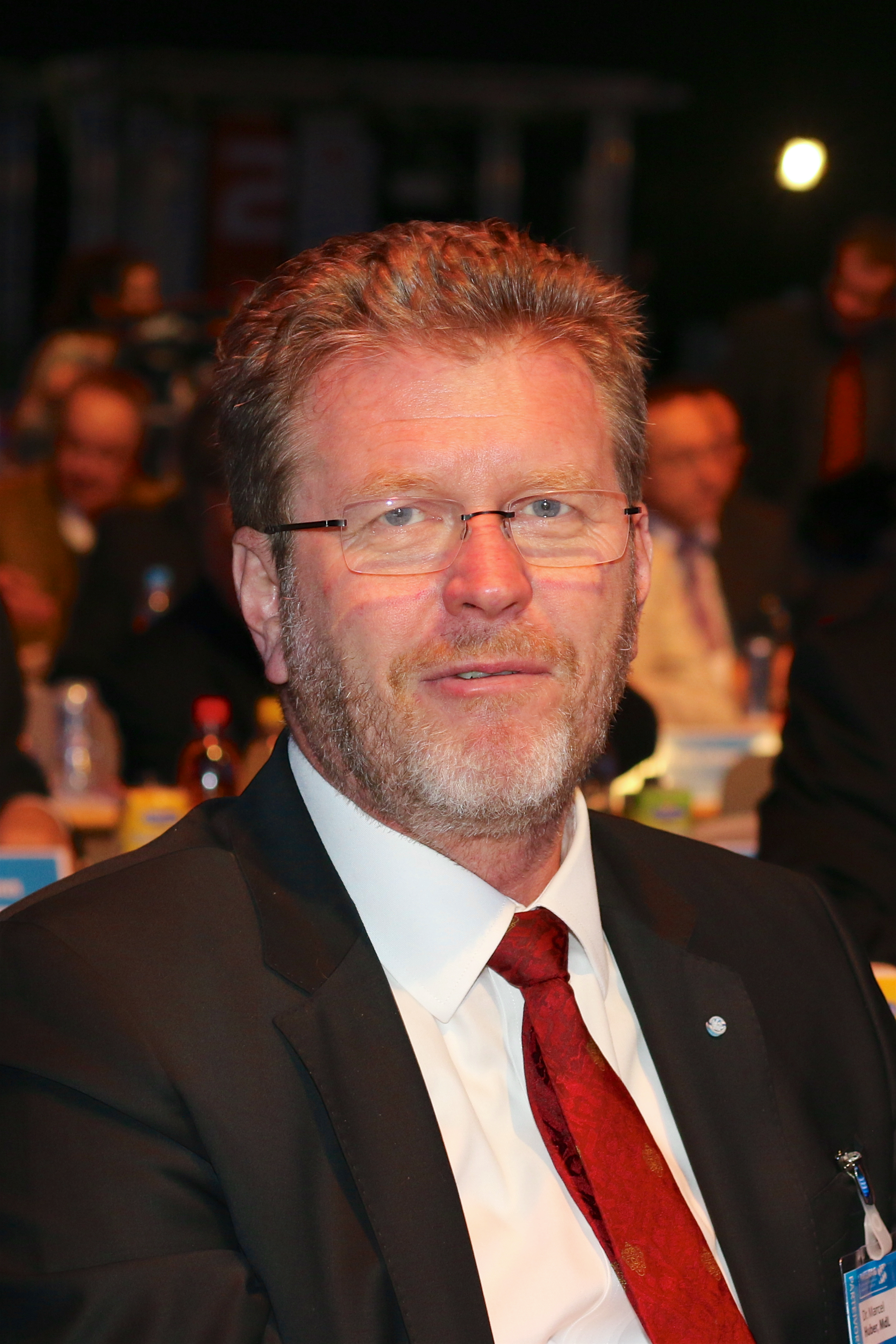 Marcel Huber, member of Bavarian parliament, minister and chief of the state chancellory (CSU)